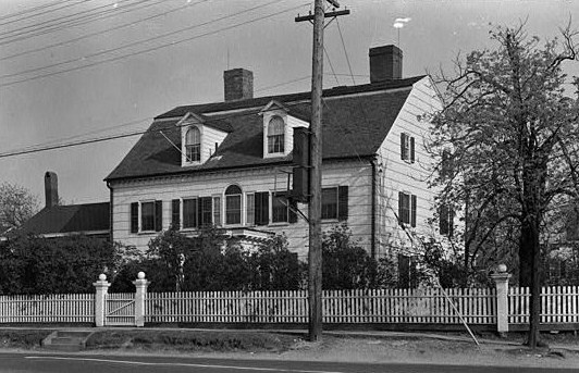 St. George's Rectory, Prospect & Greenwich Streets, Hempstead (Nassau County, New York) cropped